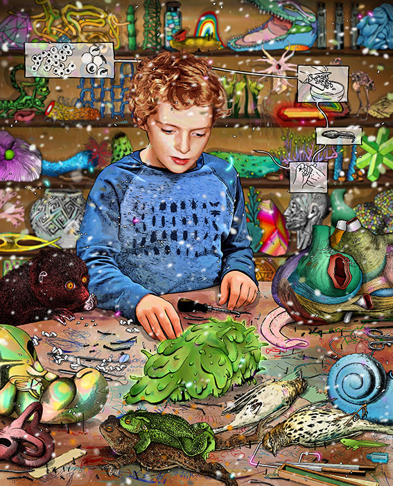 Catcher, 2016, 80 x 130 cm